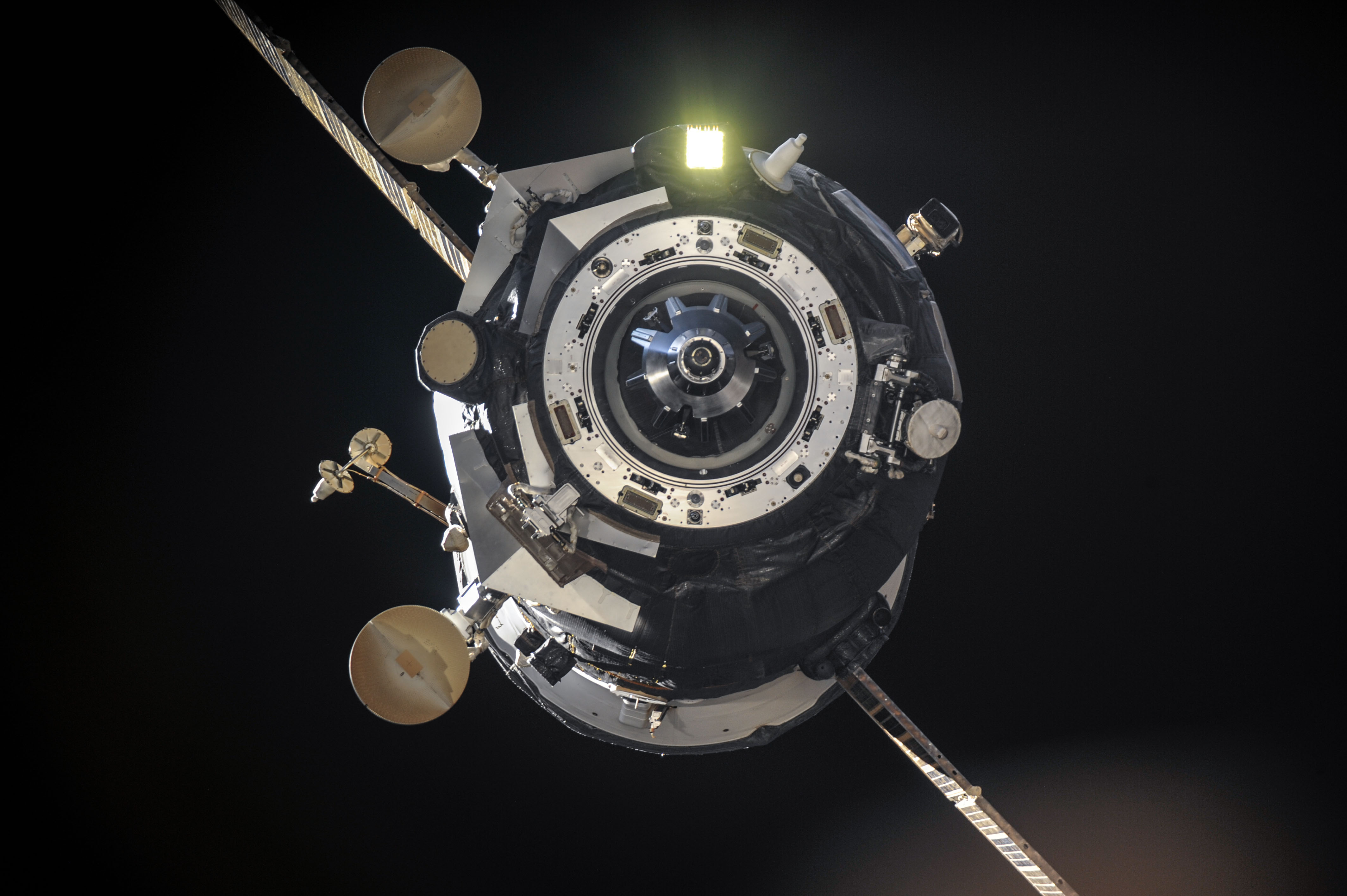 The Russian Progress 49 unmanned cargo carrier spacecraft leaves the aft port of the Zvezda service module aboard the International Space Station on April 15, 2013.